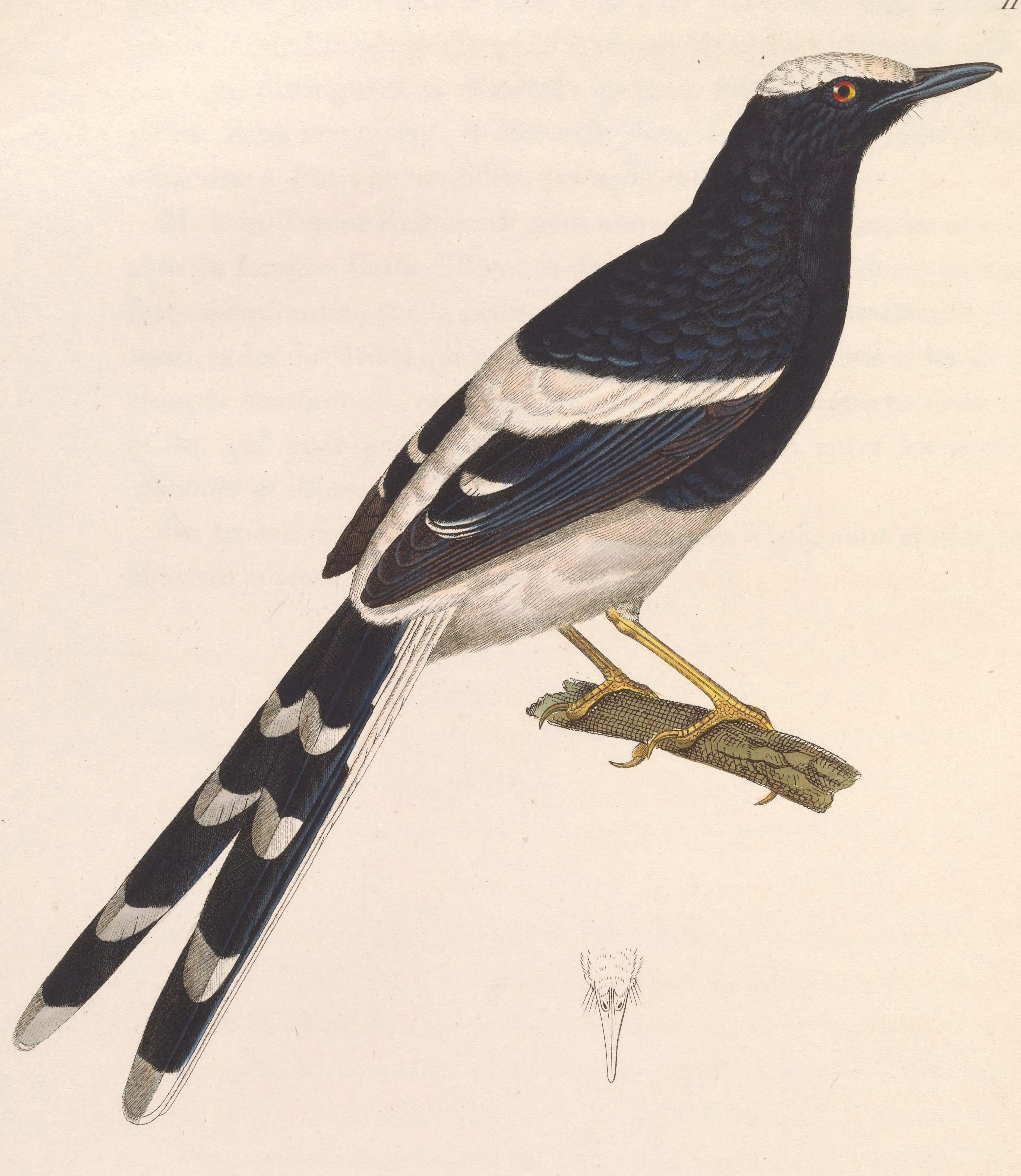 « Enicurus coronatus » = Enicurus leschenaulti (White-crowned Forktail) - male